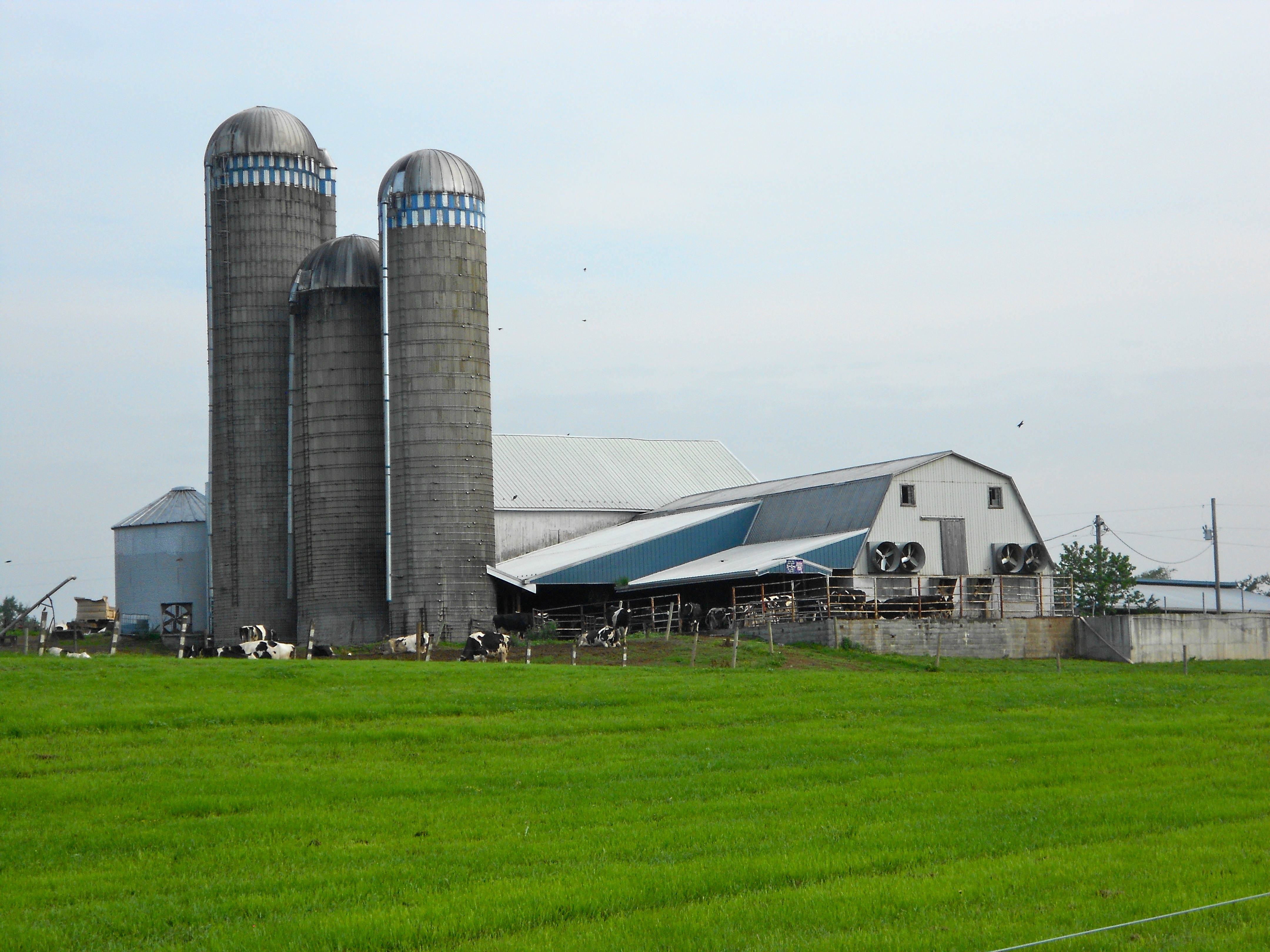 Barn in Southampton Township, Franklin County, Pennsylvania, a bit north of Orrstown Road about halfway between Shippensburg and Orrstown